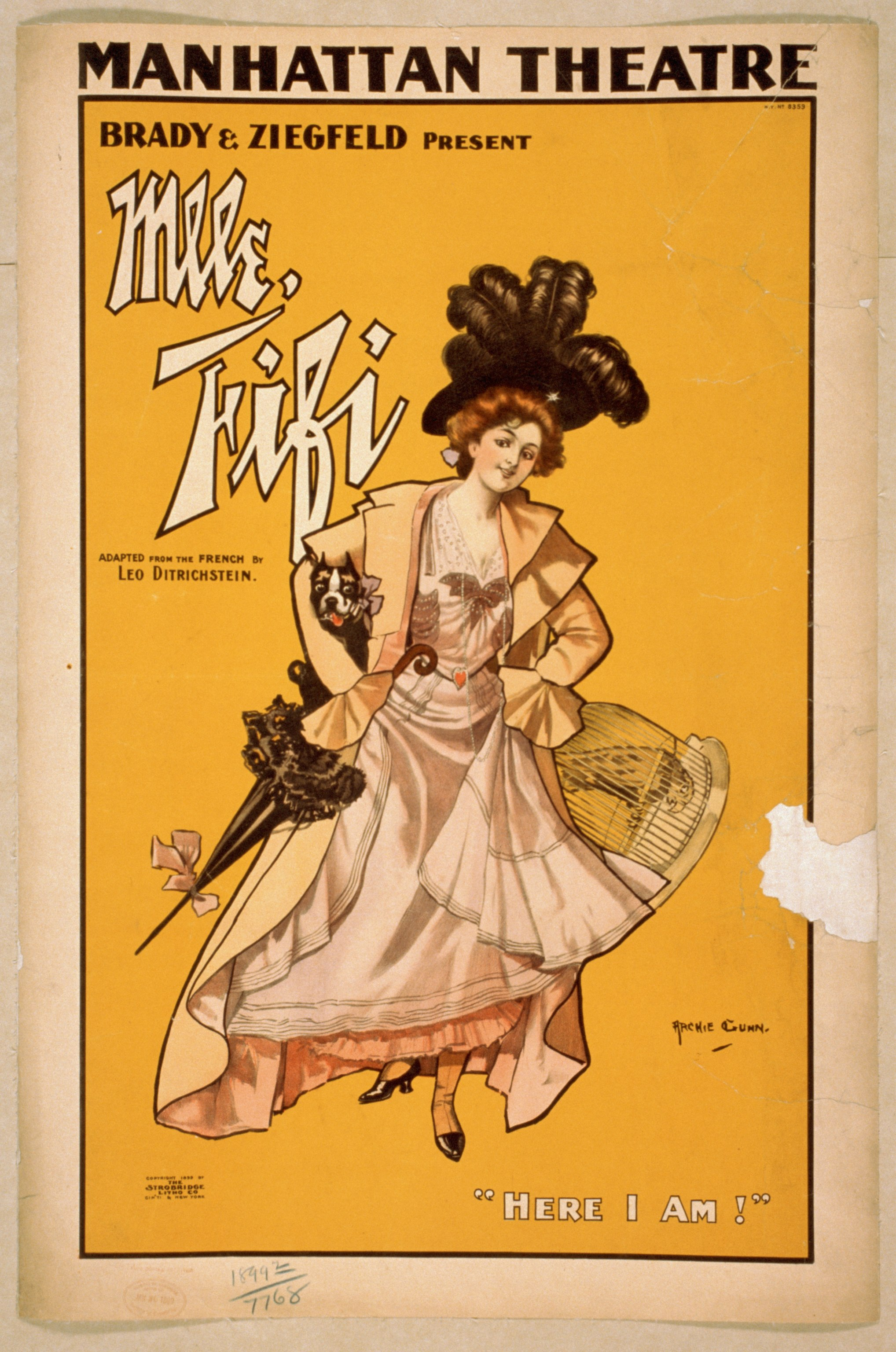 Title: Brady & Ziegfeld present Mlle. Fifi adapted from the French by Leo Ditrichstein. Abstract/medium: 1 print : color lithograph ; sheet 76 x 51 cm. (poster format)